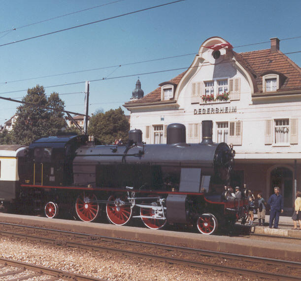 Bodensee–Toggenburg-Bahn Eb 3/5 6, Maffei 3126/1910, 1932–1965 SBB 5886, wird 1965 nach Degersheim gebracht für die Aufstellung als Denkmal